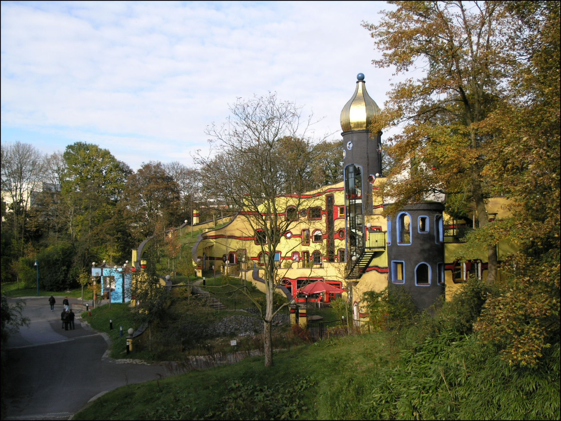 Grugapark (Essen, Germany) - Ronald McDonald house